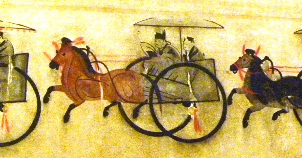 This is a photo copy of part of a wall mural showing the landlord in a procession of chariots with accompanying guards and attendants. National Museum, Beijing.